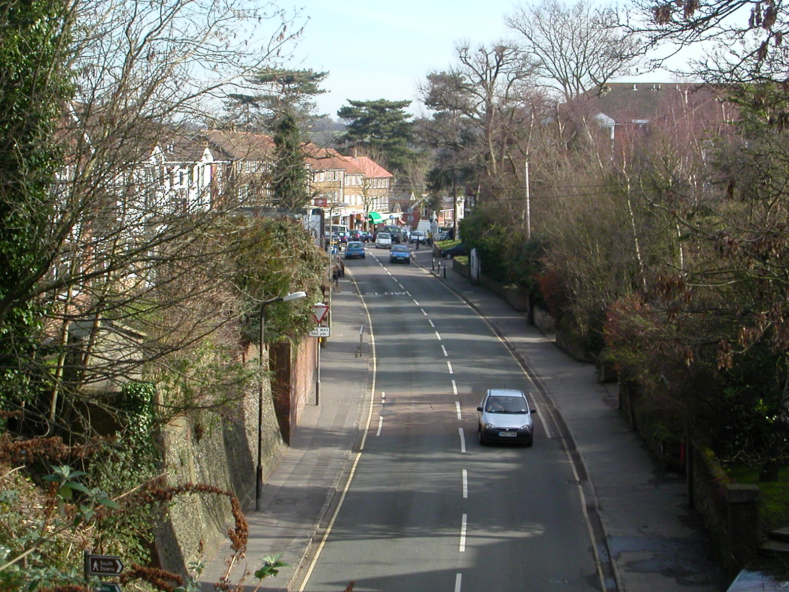 Eastward view down Keymer Road, Hassocks, from the railway bridge. Photographed on 17th February 2007.